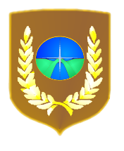 Coat of arms of Struga, Republic of Macedonia